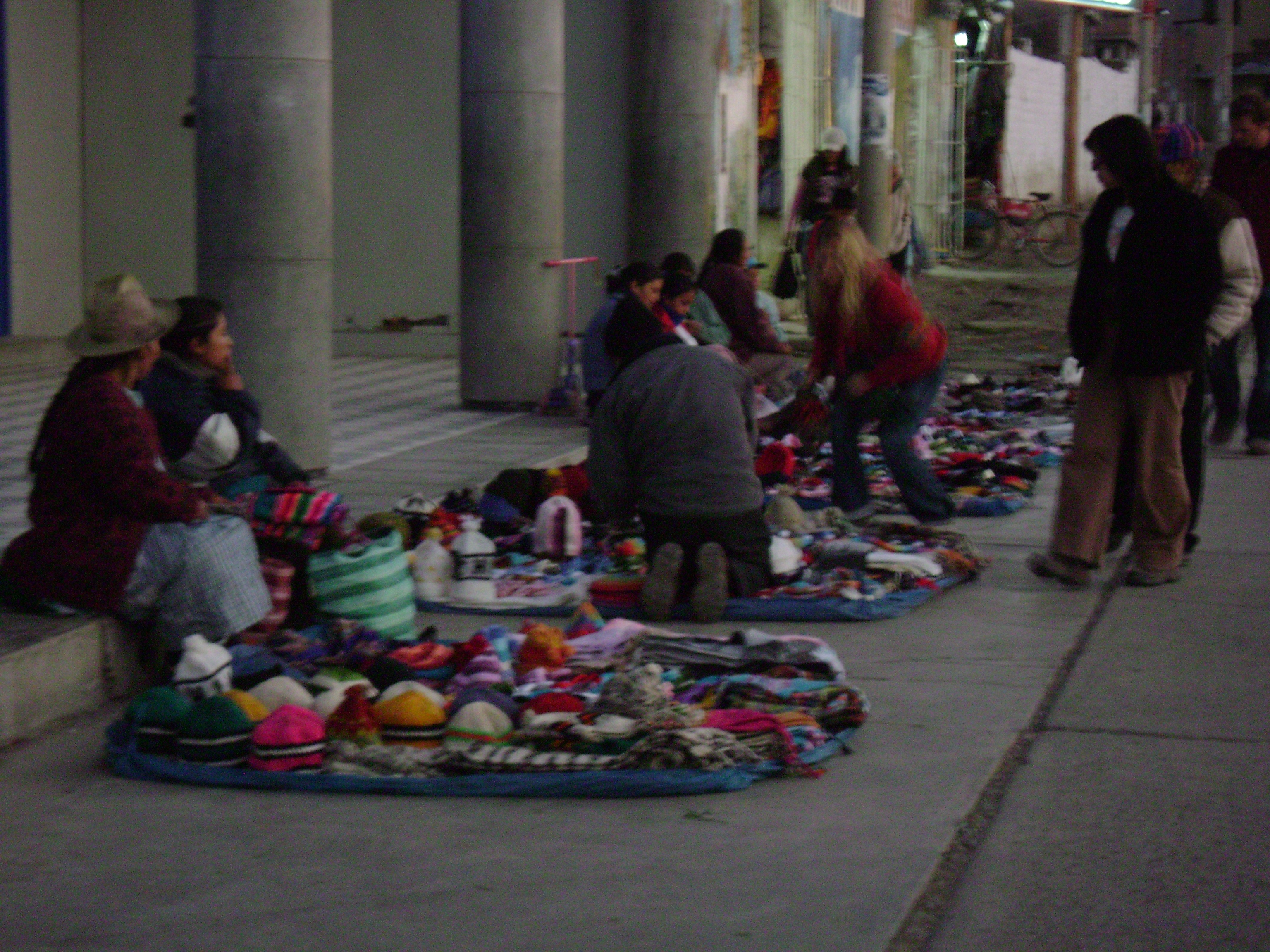 Handicrafts street-sellers in the city of Huaraz (Ancash-Perú)